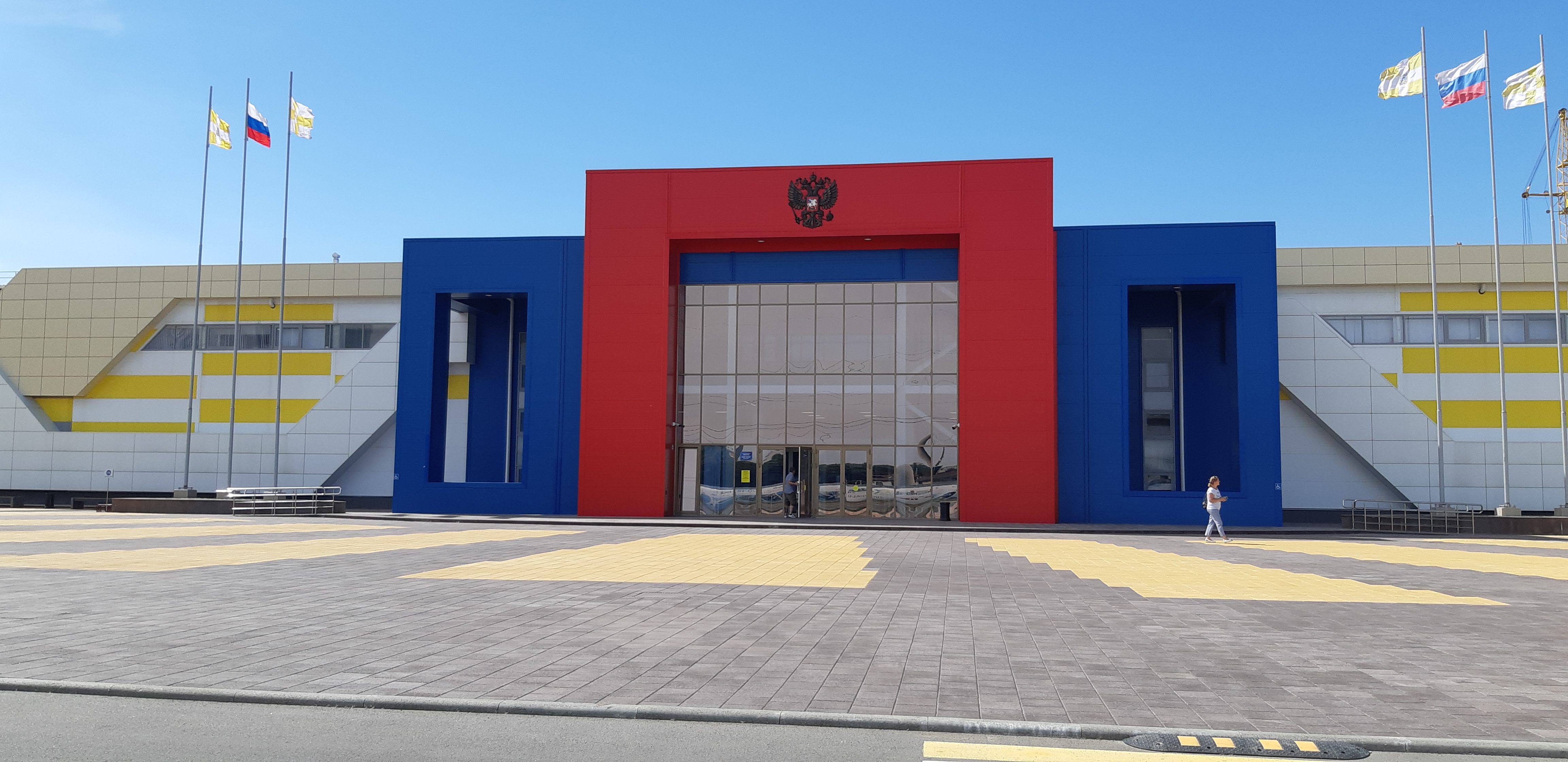 Historical park Russia is my history in Stavropol